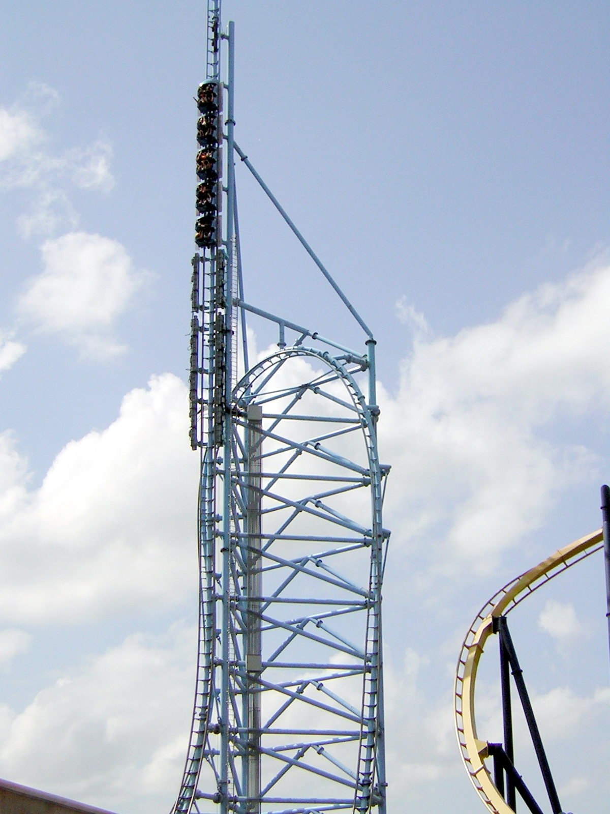 Mr. Freeze was my favorite coaster of the trip.Mr. Freeze